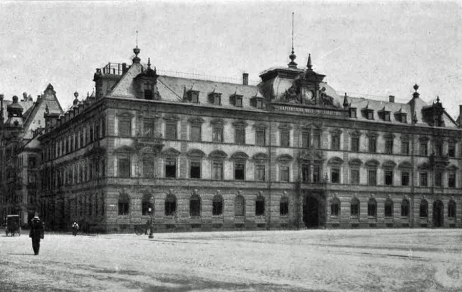 Old post office in Koblenz